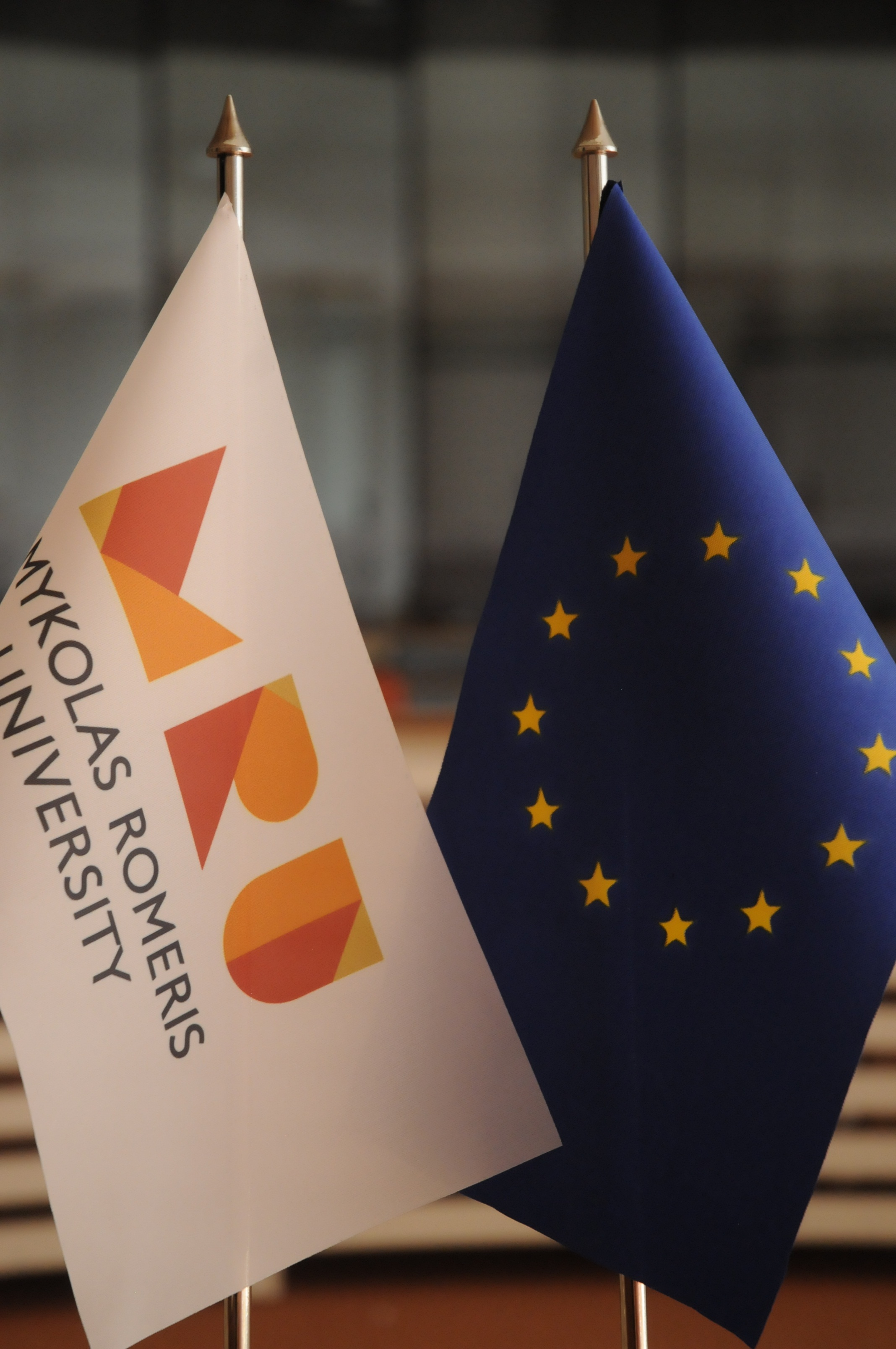 MRU flag